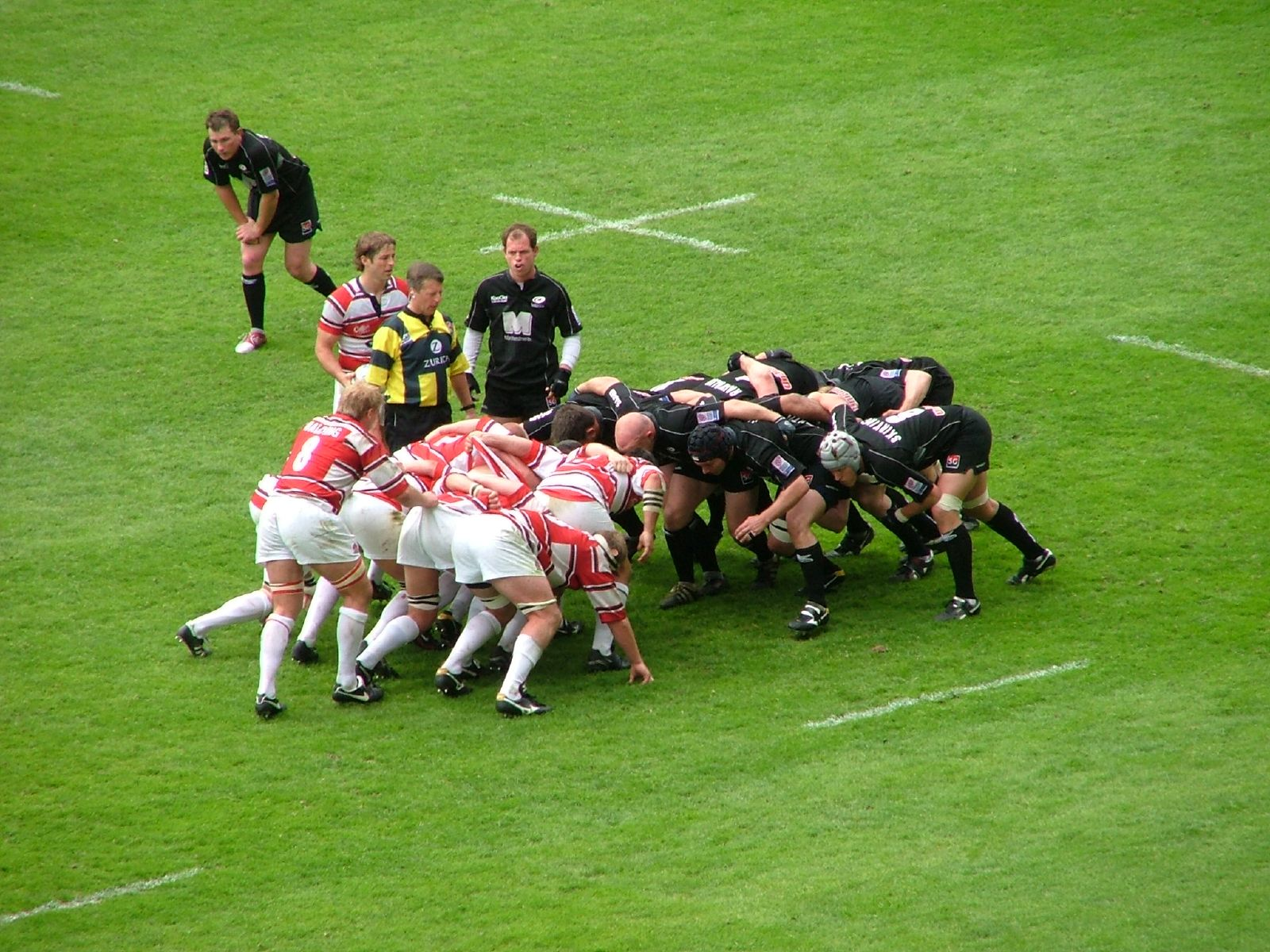 A scrum in a Saracens vs Gloucester Rugby union match